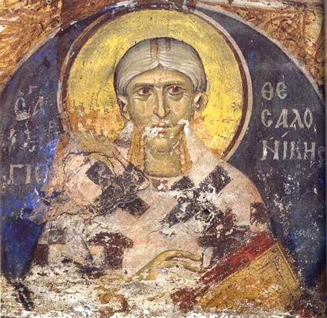 Agios-Georgios-Thesalonikis-o-Glykis